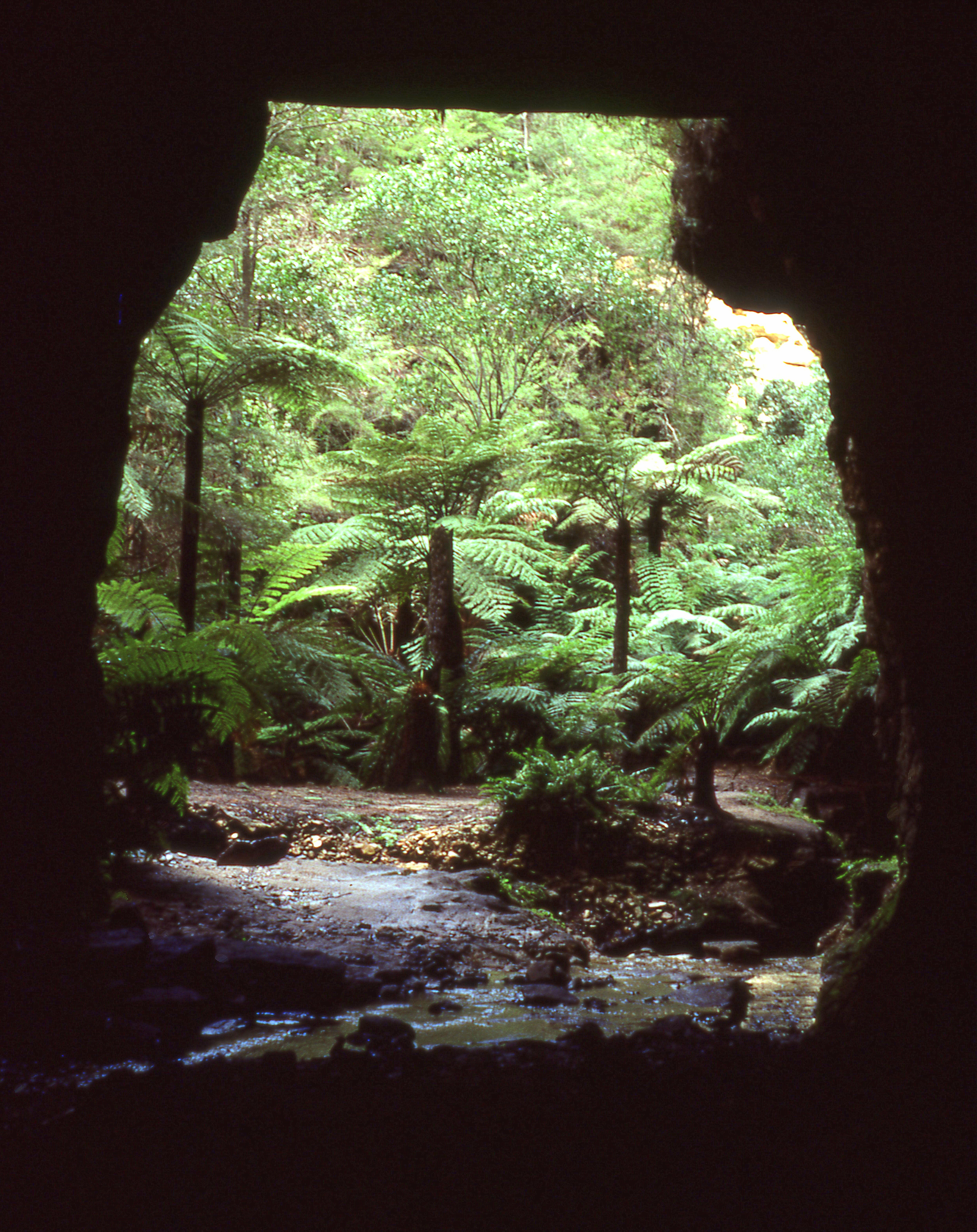 Glowworm Tunnel, Wollemi NP, NSW, Australia (Kodachrome slide scanned at 6400)